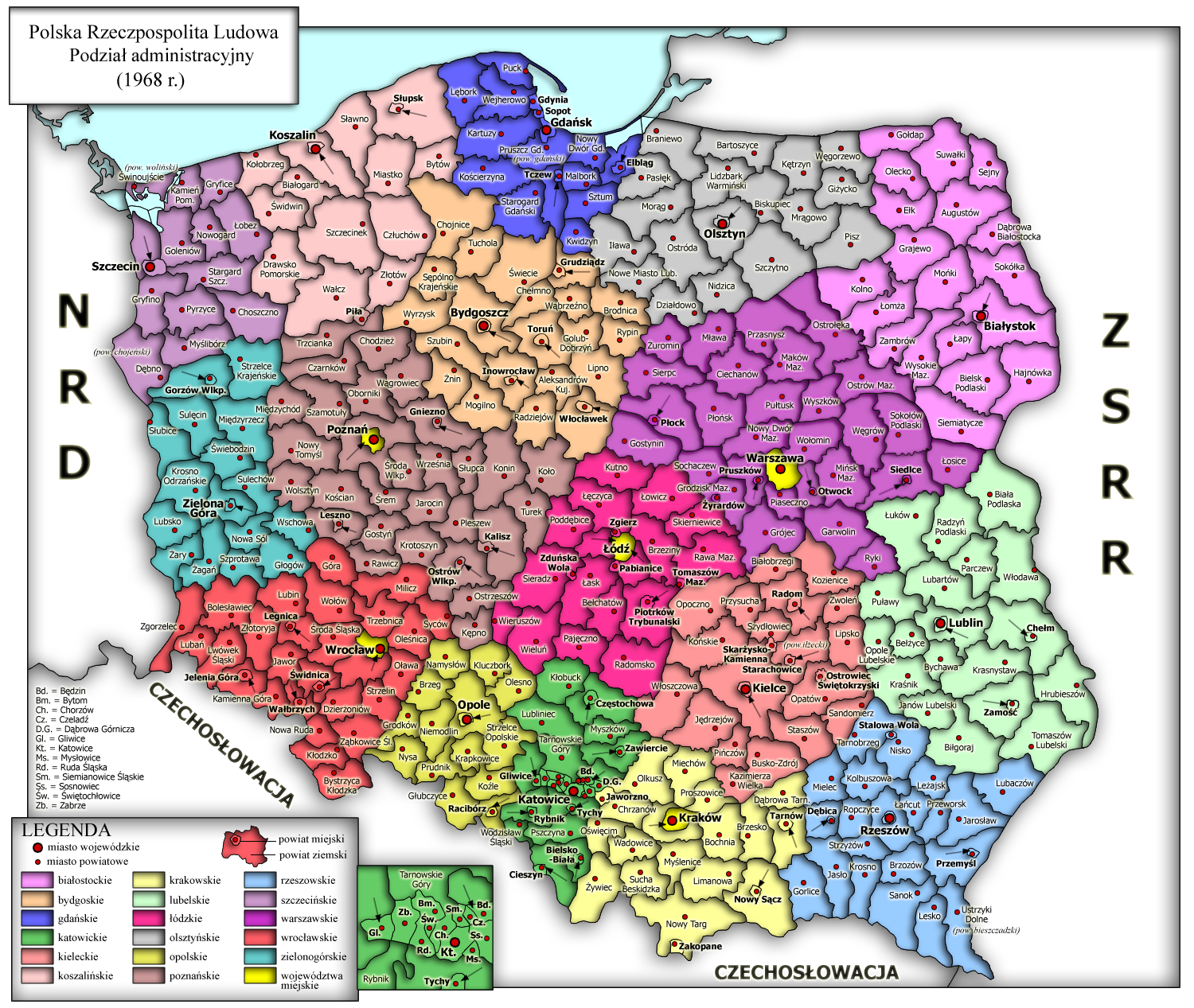 Administrative map of Poland from 1968